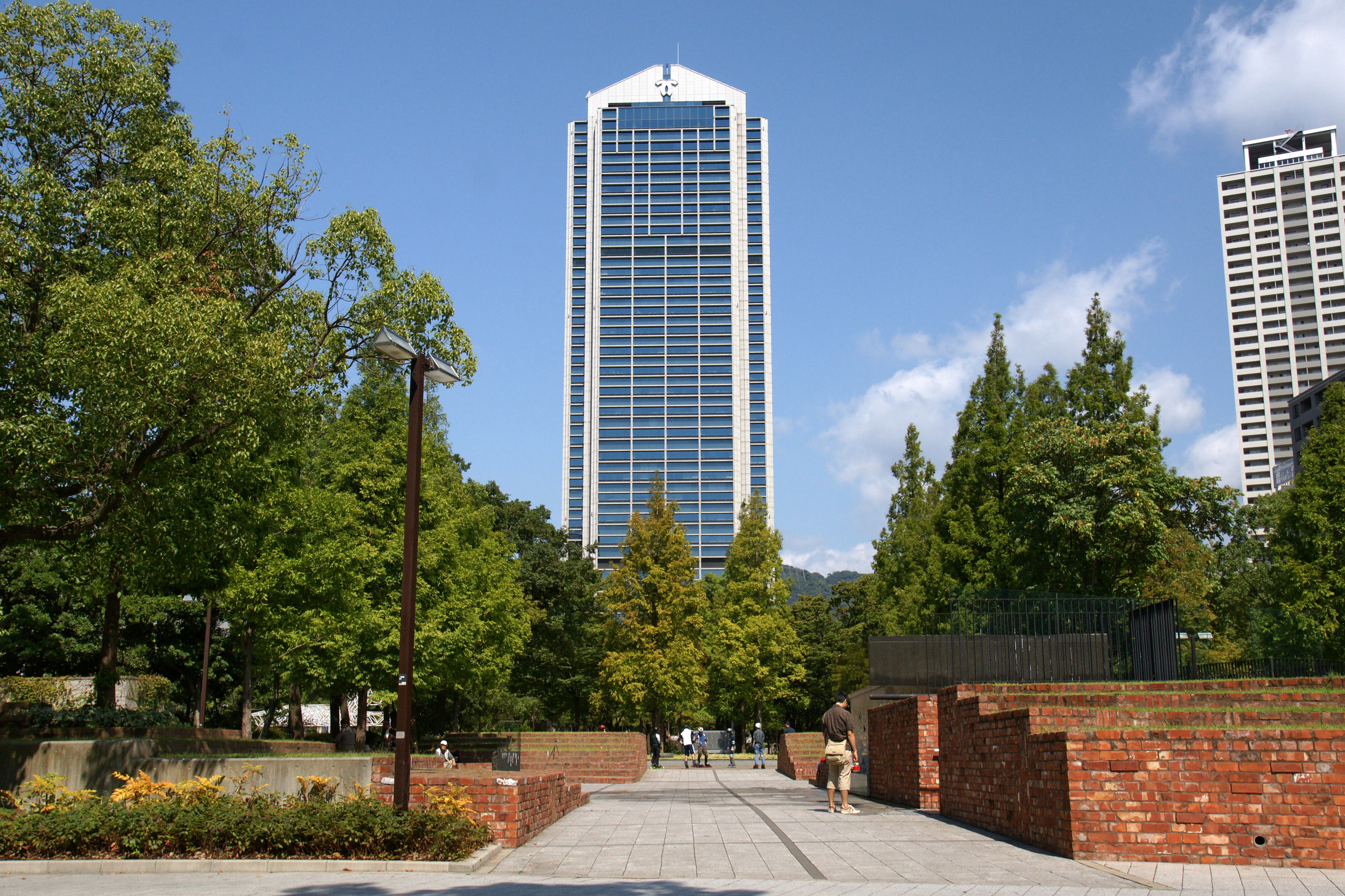 Kobe City Hall, Kobe, Hyogo prefecture, Japan